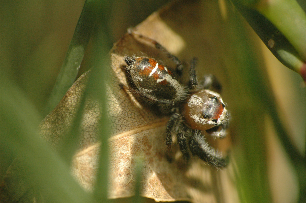 Thyene sp., Jumping spider